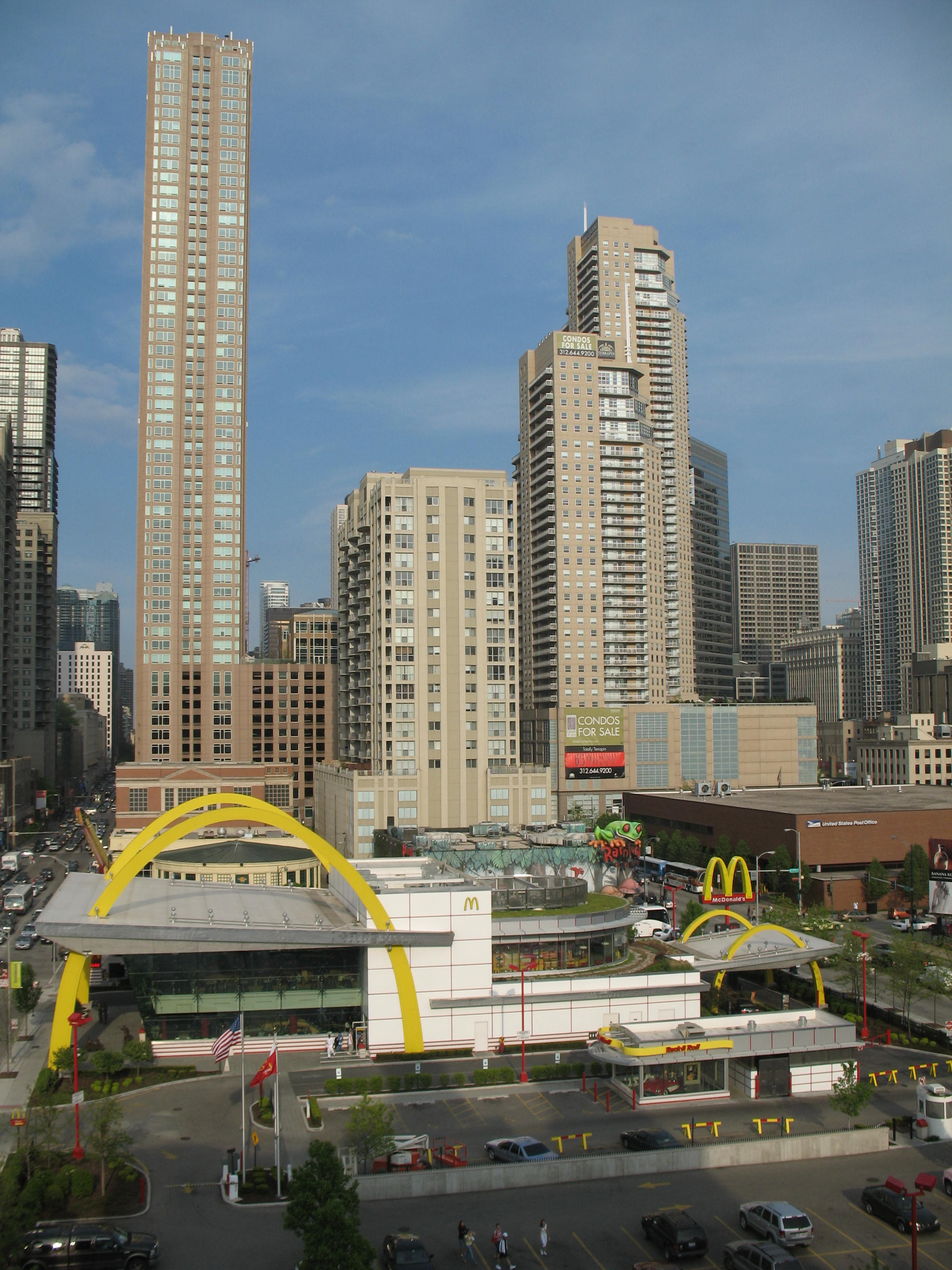 Chicago: Rock & Roll McDonalds from 7th fl. of Sports Authority